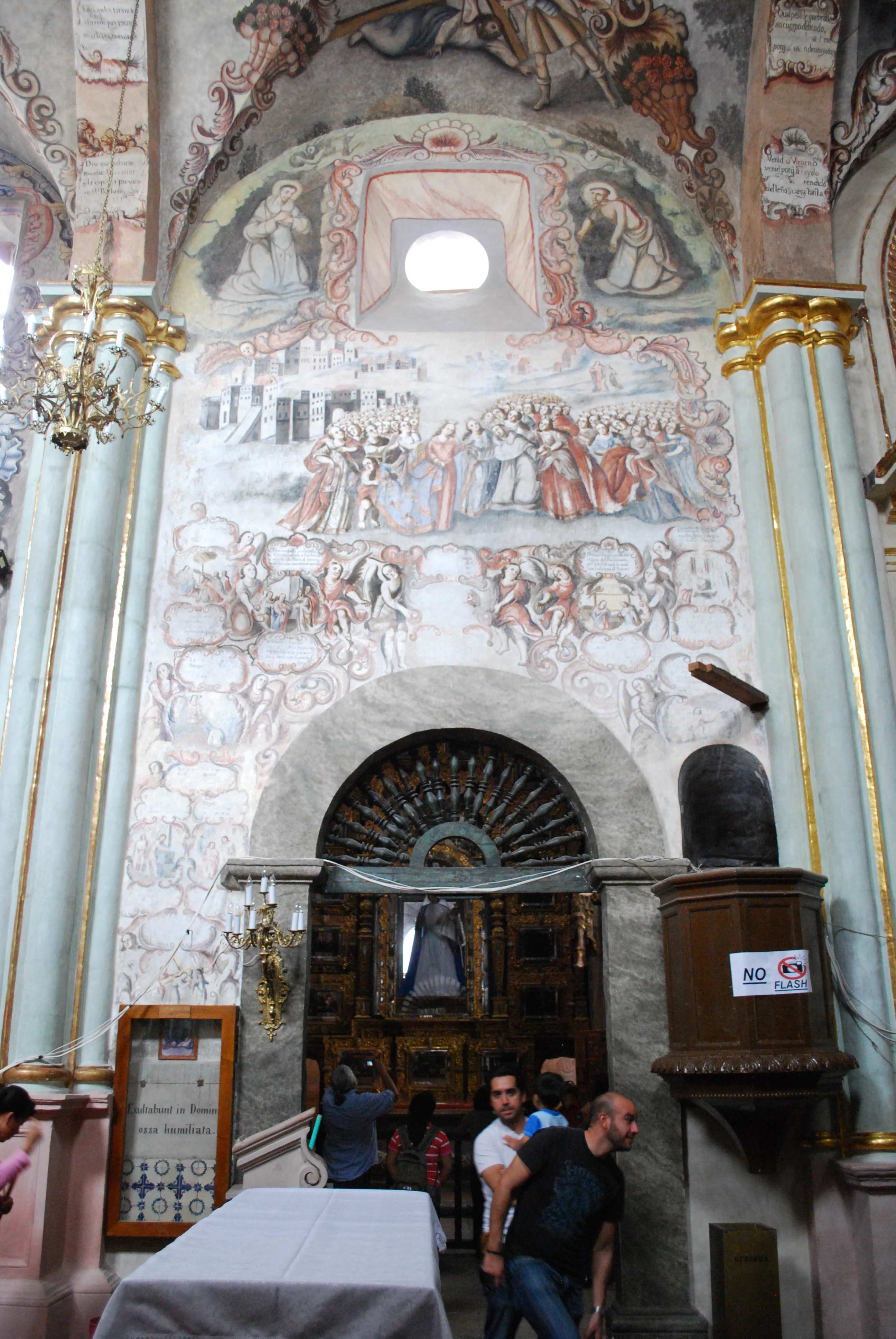 Doorway to chapel by main altar at the Sanctuary of Atotonilco, San Miguel de Allende, Guanajuato, Mexico